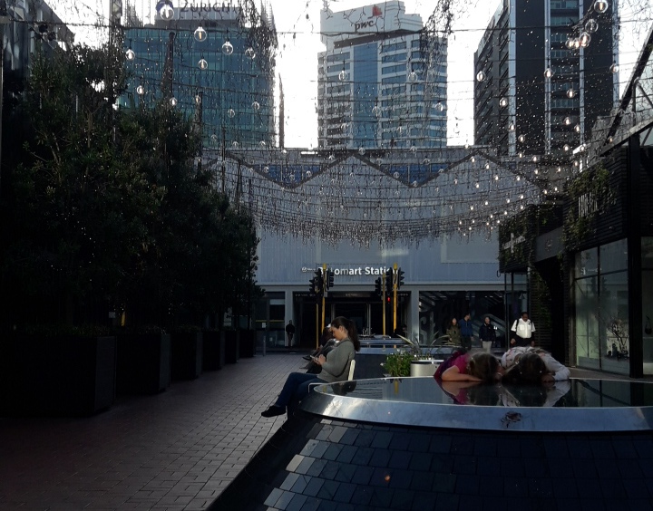 The temporary Britomart station while the CRL is being built